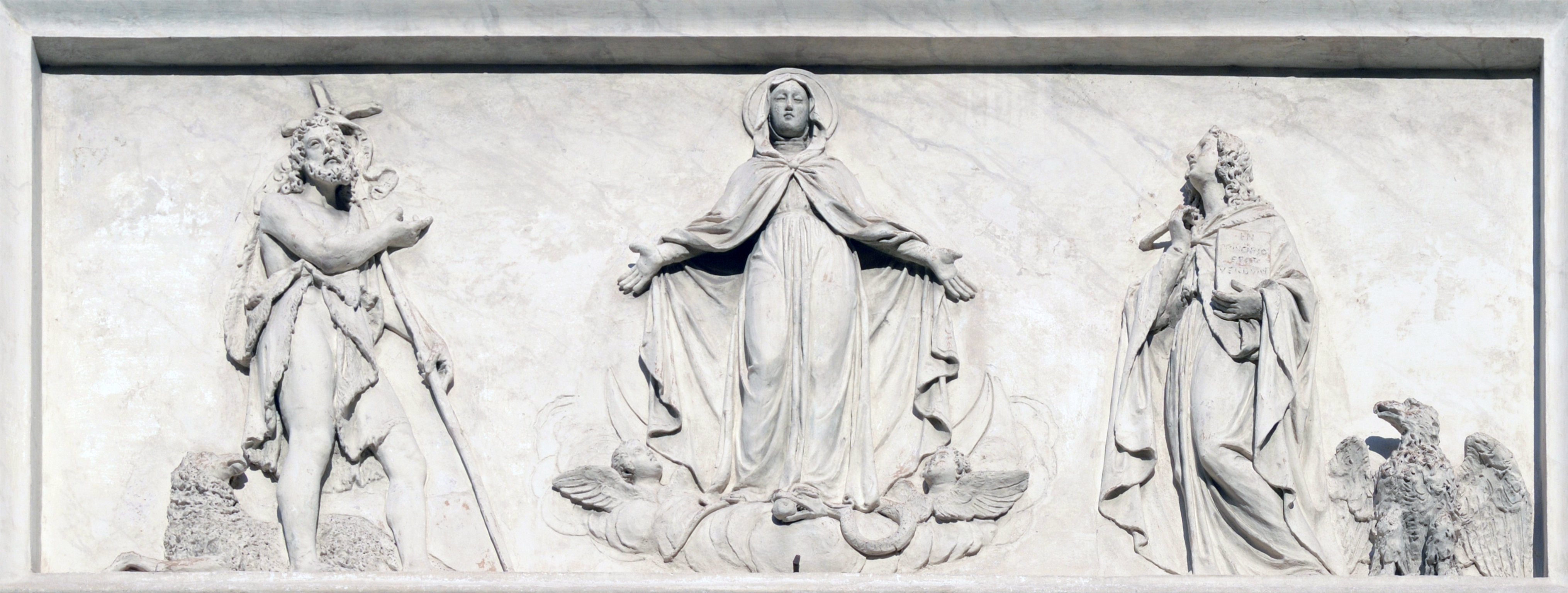 to the Virgin Mary with the SS. John the Evangelist and John the Baptist on the Church of St. John of the Malva in Trastevere.jpg (file)